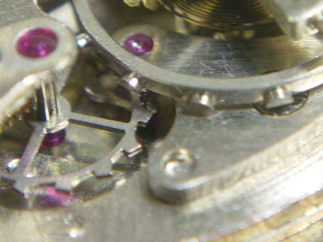 A jewelled pin-pallet escapement in an inexpensive watch from the 1950s. The pin-pallet escapement was a cheaper-to-manufacture version of the lever escapement. It was used in lower quality mass market watches from the early 1900s. Only a few manufacturers made pin-pallet watches with jewel bearings like this (red pieces of ruby visible in the image); it was probably made by either Timex or Oris. Pin pallet watches became obsolete when the inexpensive end of the watch market went to quartz movements in the 1980s.